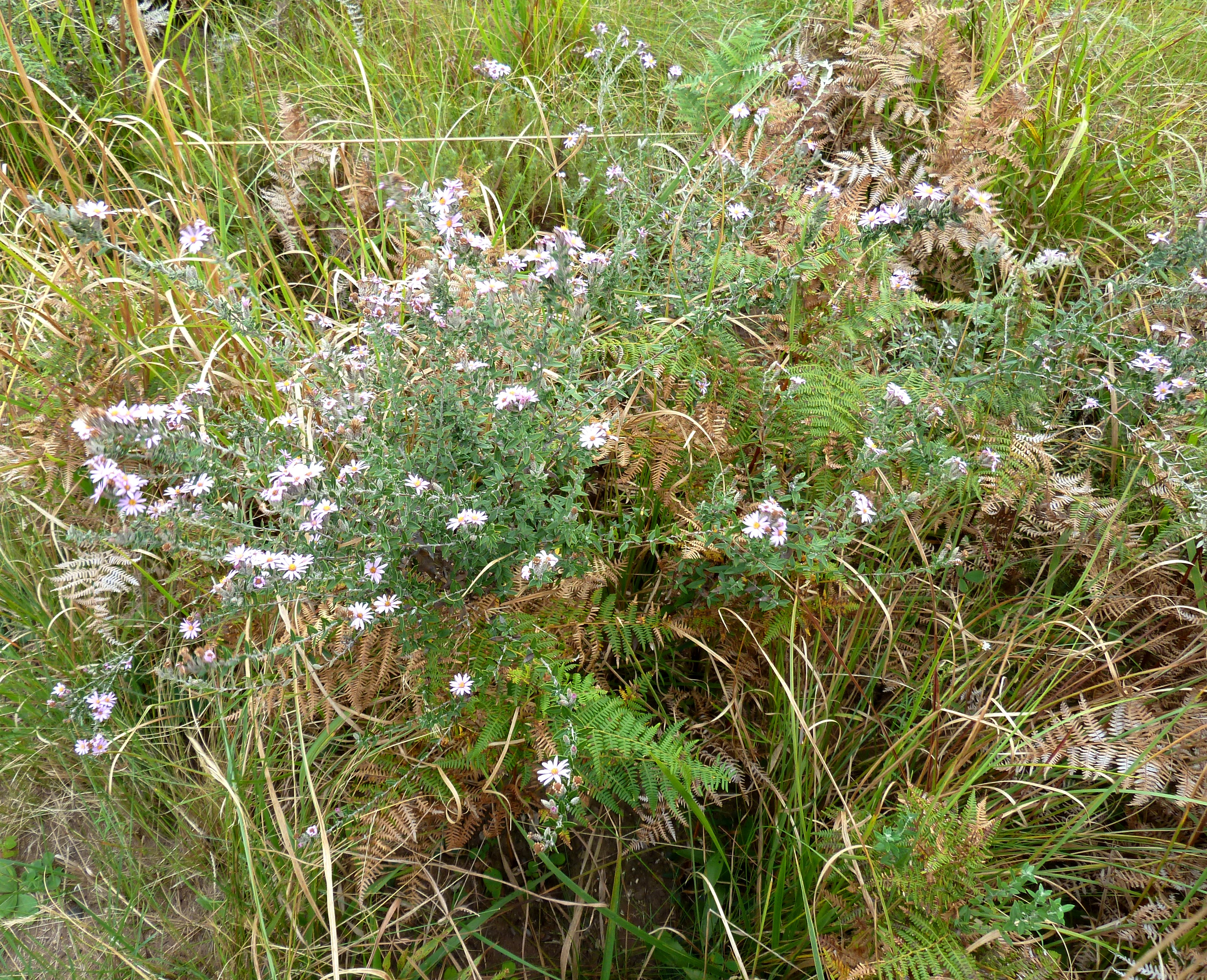 Bushman's tea growing in sourveld of Krantzkloof Nature Reserve, KwaZulu-Natal